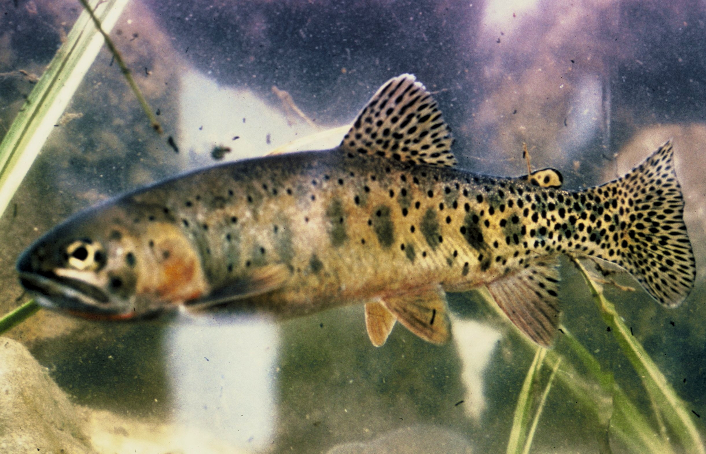 Rio Grande Cutthroat Trout (Oncorhynchus clarkii virginalis)